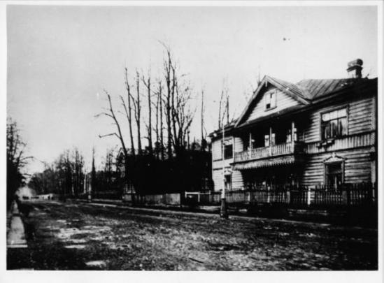 Pesochnaja Street (now Professora Popova Street), 10, Saint-Petersburg